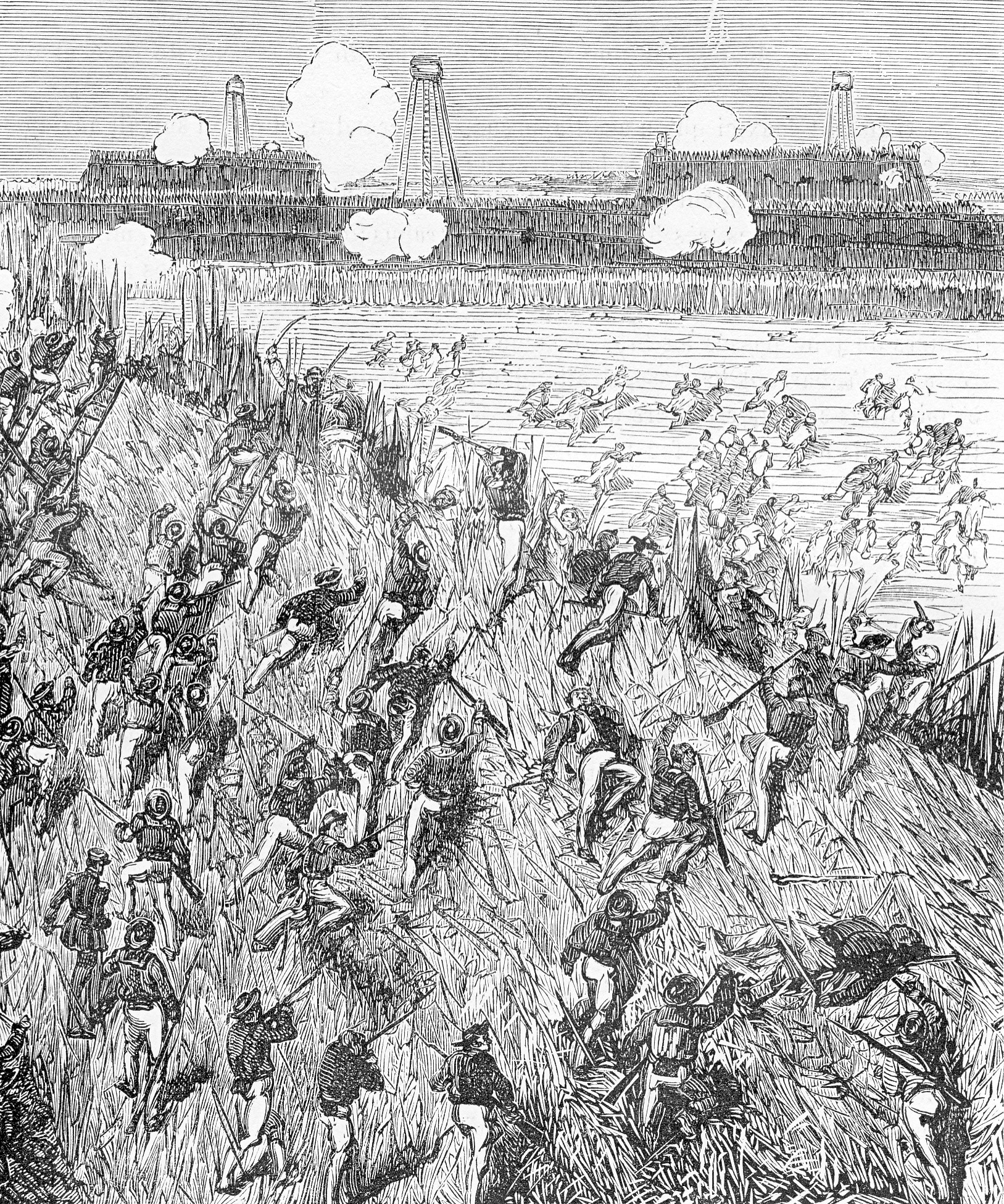 French sailors attack the Thuan An forts, 20 August 1883